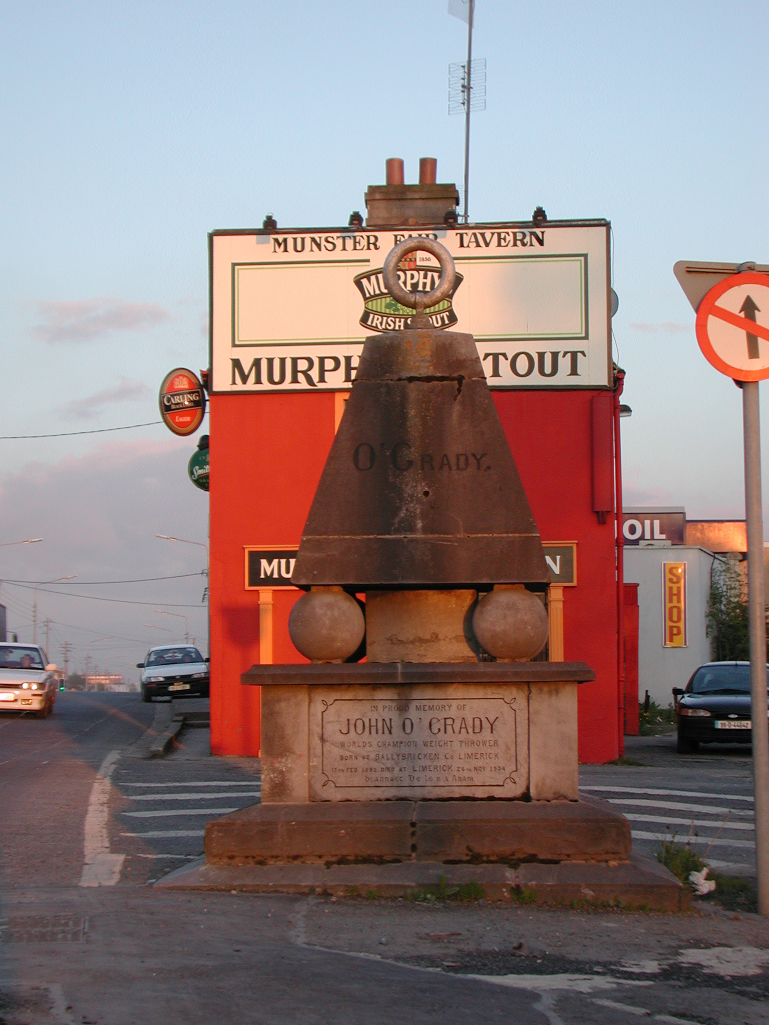 Leacht a thogadh i gcuimhne an luth-chleasai Luimnioch Sean O Grada ar Bhothar Mulgave. Griangraf togtha sa bhlian 2002 ag Sean an Scuab.